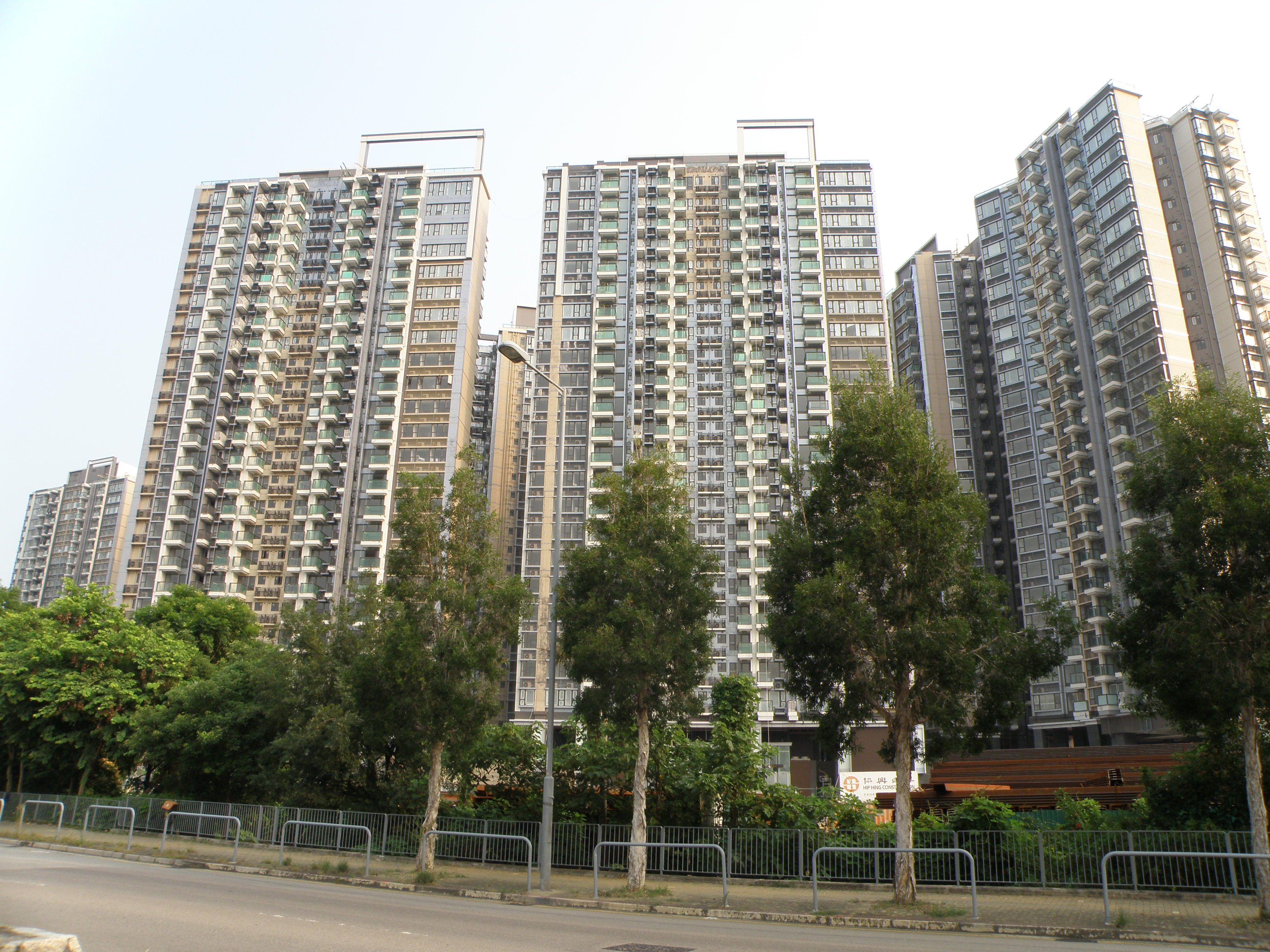 Park Signature, a private residence in Yuen Long, Hong Kong.